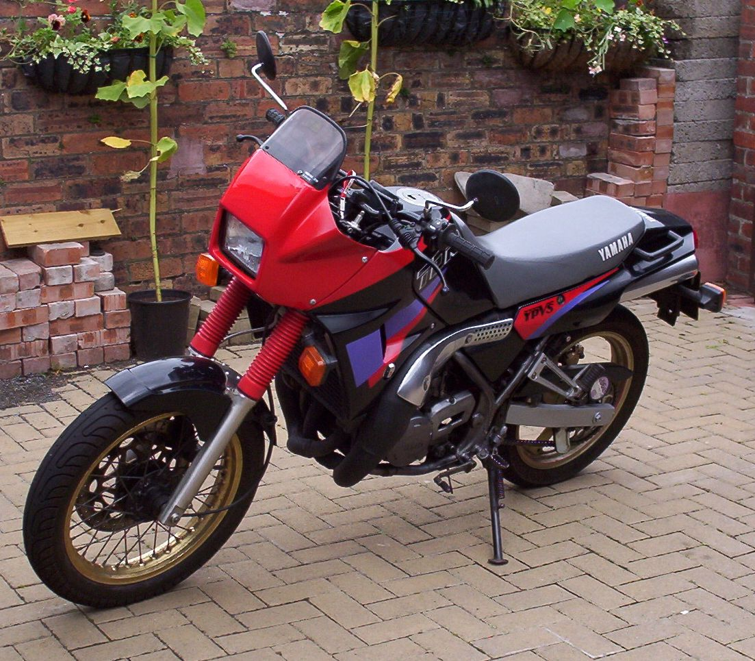 Photograph taken by myself of my own 1990 Yamaha TDR250.